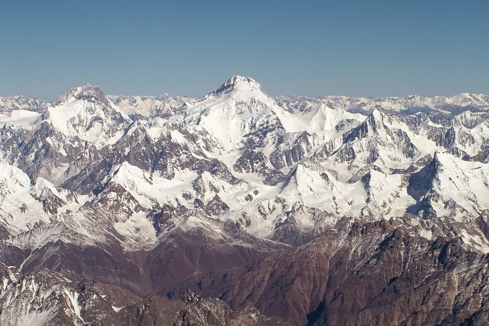 Aerial view of the Karakorams: Yukshin Gardan Sar (left) and Kanjut Sar (centre)